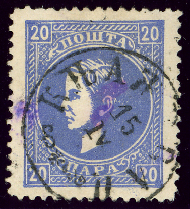 Serbia 20 para stamp, issue 1869, Prince Milan.